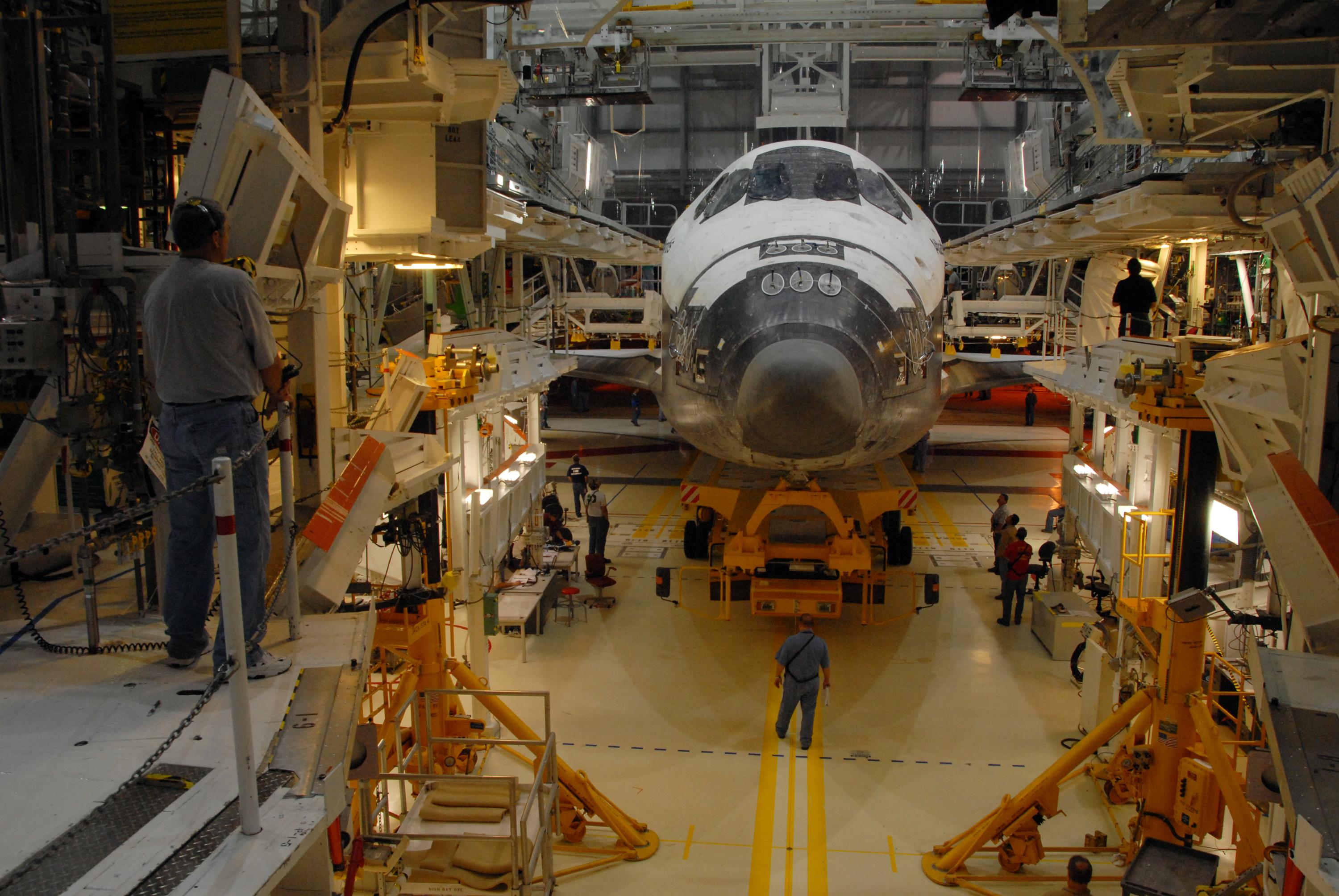 In Orbiter Processing Facility bay 1, workers monitor the readiness of space shuttle Atlantis for its move to the Vehicle Assembly Building. Rollover from its processing bay began at 7:05 a.m. EDT. Atlantis arrived in the VAB's transfer aisle at 8:03 a.m. In the VAB, the shuttle will be lifted and mated with the external tank and solid rocket boosters designated for mission STS-122, already secured atop a mobile launcher platform.